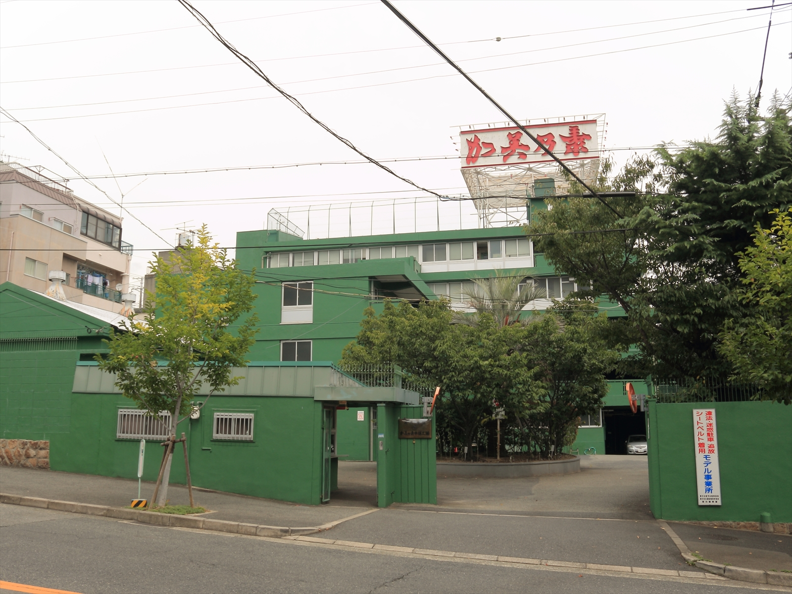 Headquarter of Kaminomoto Hompo (Pharmaceutical company of Japan). Kobe.